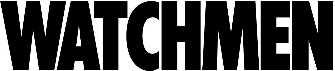 The logo for the HBO series, Watchmen. From the official website.